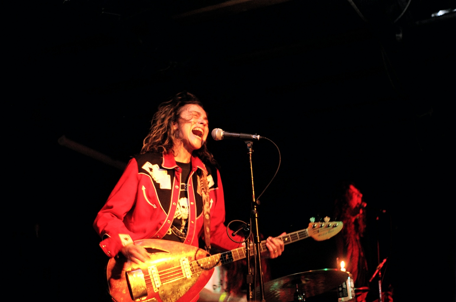 Dead Moon live.